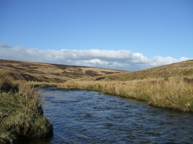 Elvan Water Rising in the Lowther Hills,Elvan Water eventually flows into the River Clyde several miles east from here.